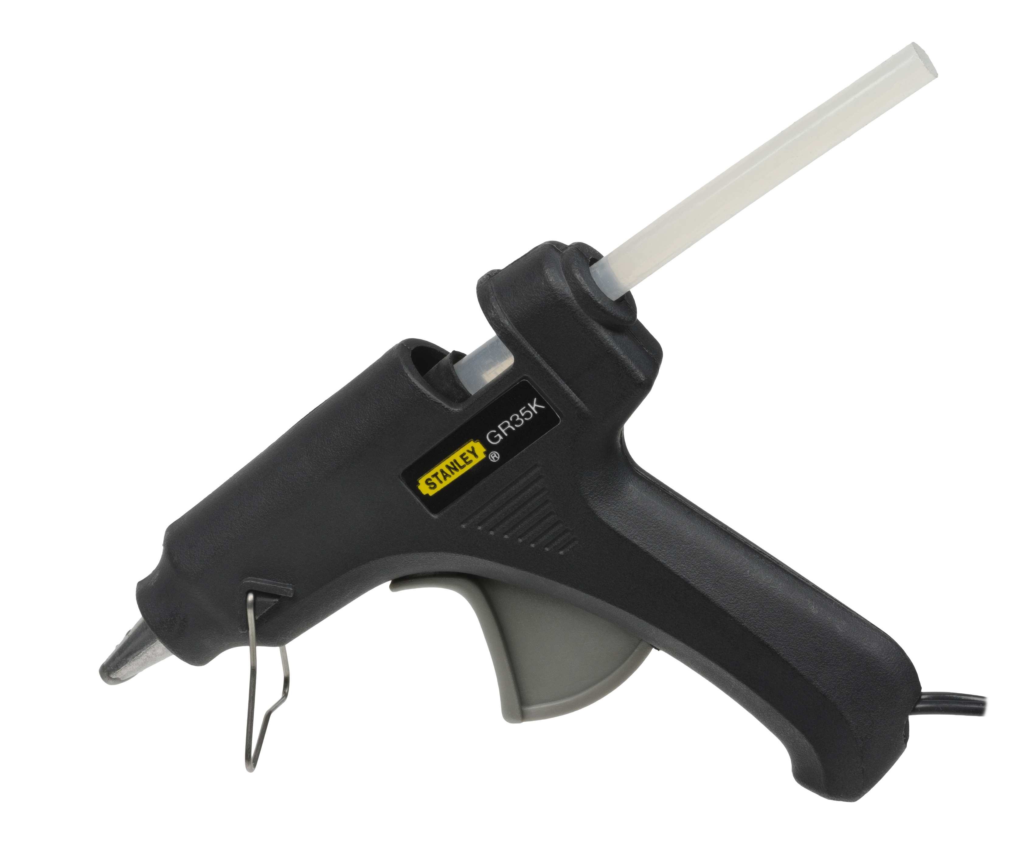 An inexpensive hot glue gun for hobbyists made by Stanley, model GR35K.